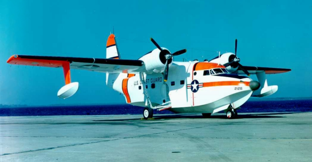 A U.S. Coast Guard Grumman UF-1G Albatross (serial 2126, ex USAF 52-126, after 1962 HU-16E), at the USCG Aircraft Repair & Supply Base, Elizabeth City, North Carolina (USA), on 14 January 1959. A new paint scheme was tried on this aircraft, which was, however, not used.